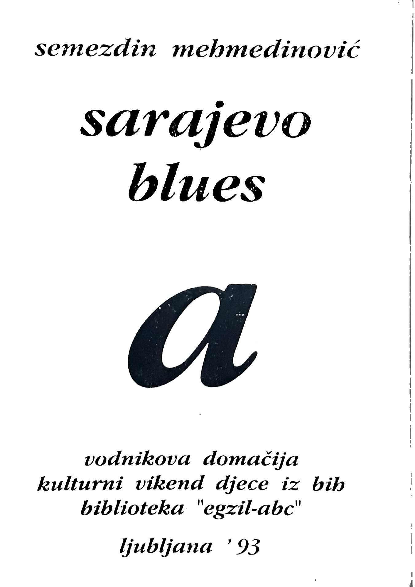 Book cover